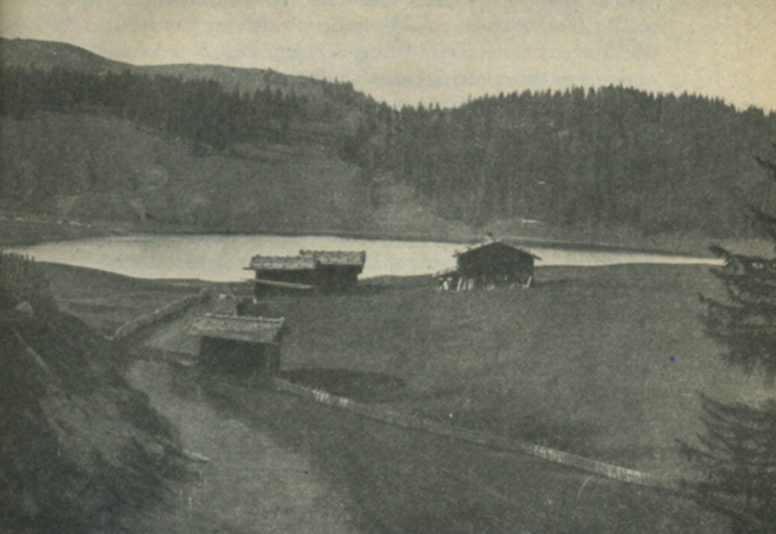 Upper Lake (Obersee) at Arosa/Switzerland, before 1880